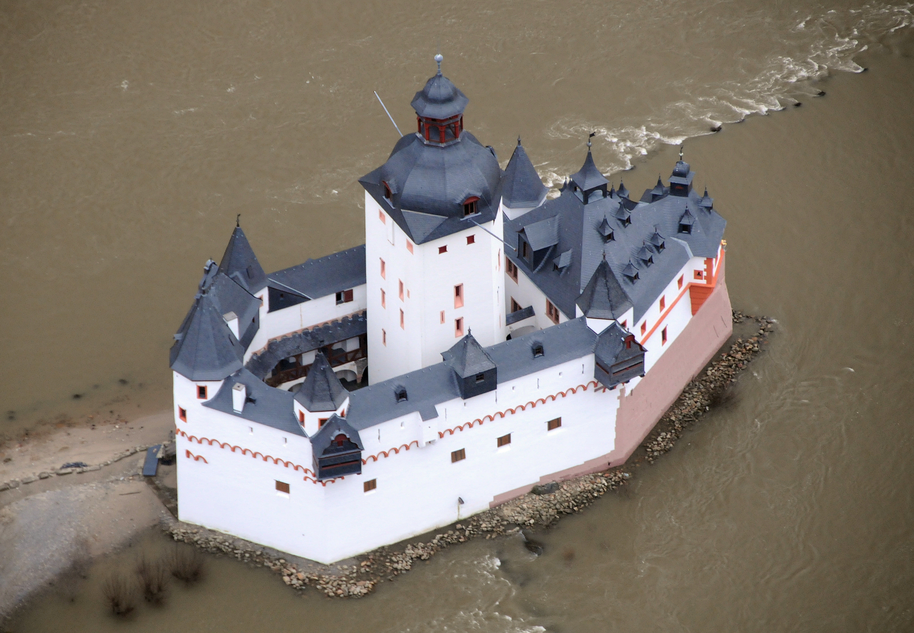 Aerial photograph of Pfalzgrafenstein Castle nearby Kaub